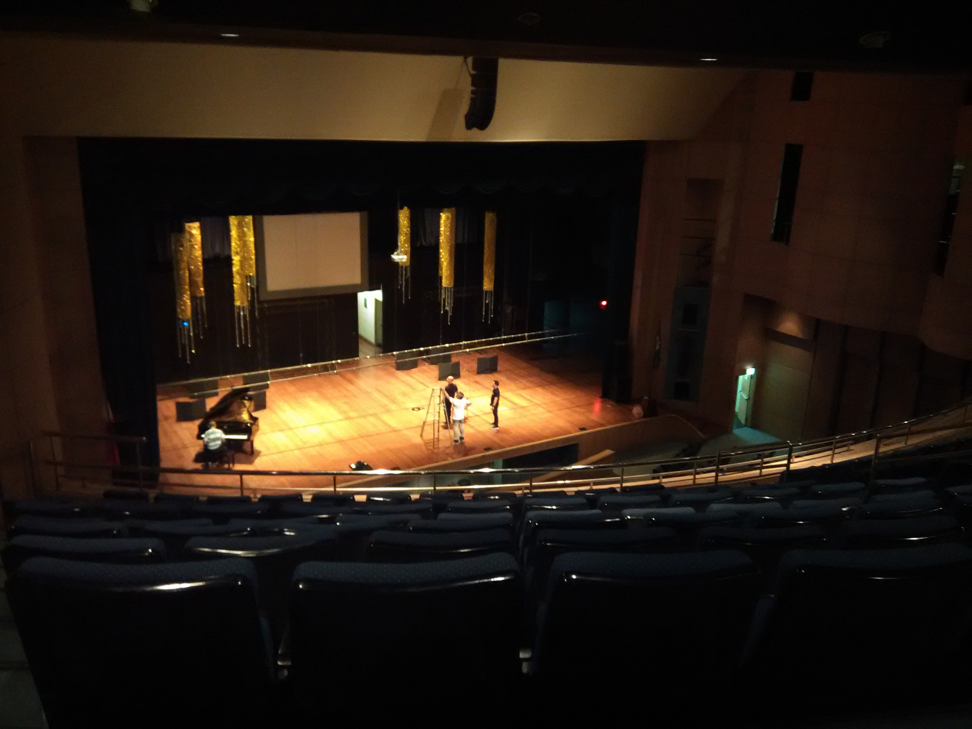 The view of the stage of the auditorium's balcony 1